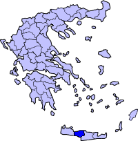 Location map of the Rethymno Prefecture in Greece